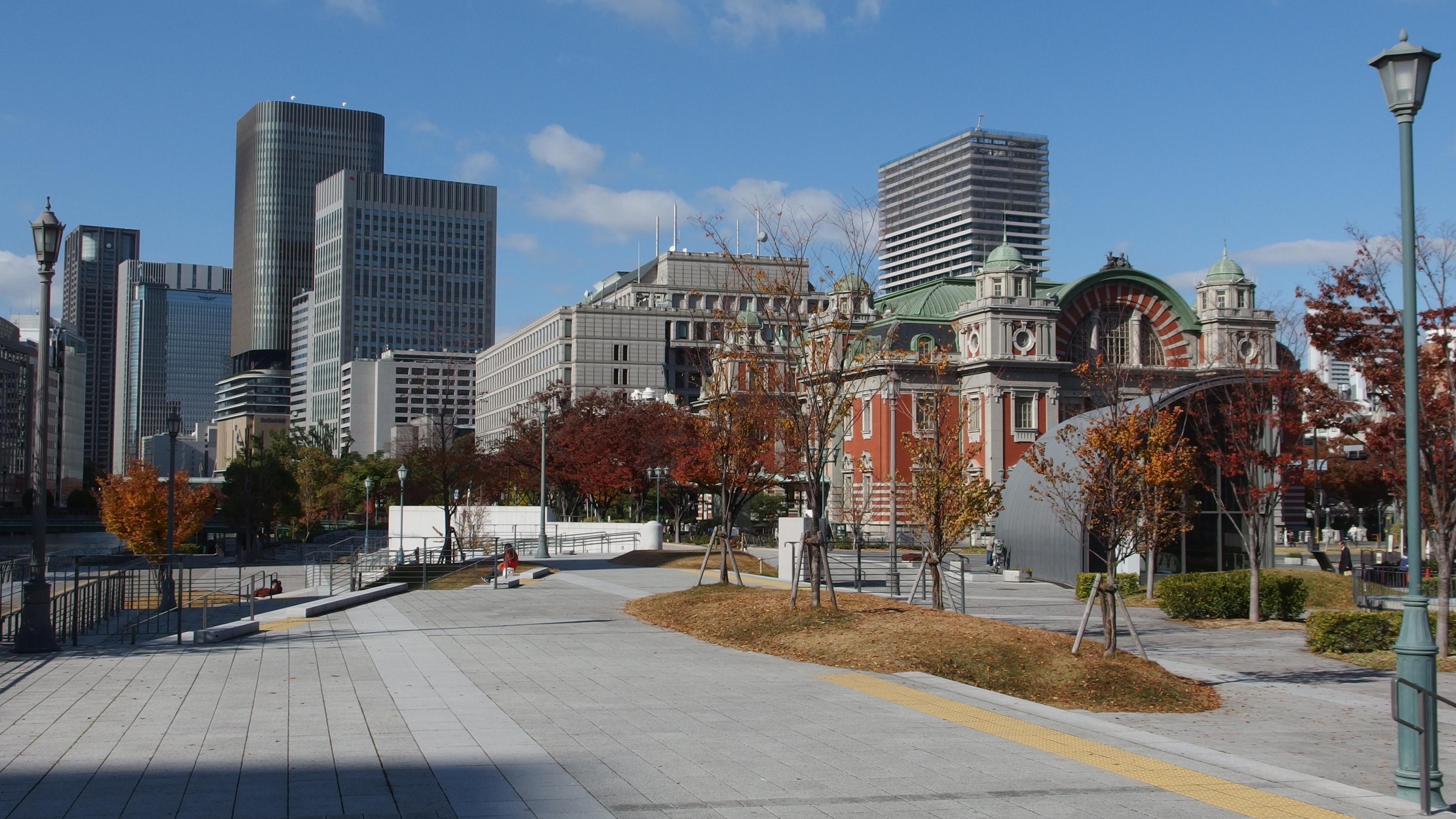 Nakanoshima Park, Osaka, Osaka Prefecture, Japan